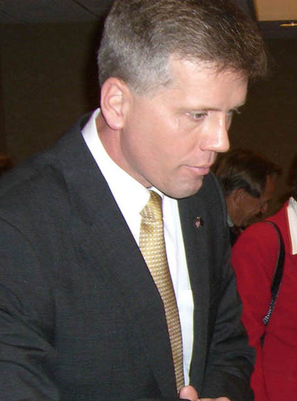 Charlie Summers at an event with U.S. Senator Susan Collins.